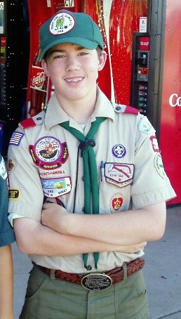 Life Scout in the Boy Scouts of America